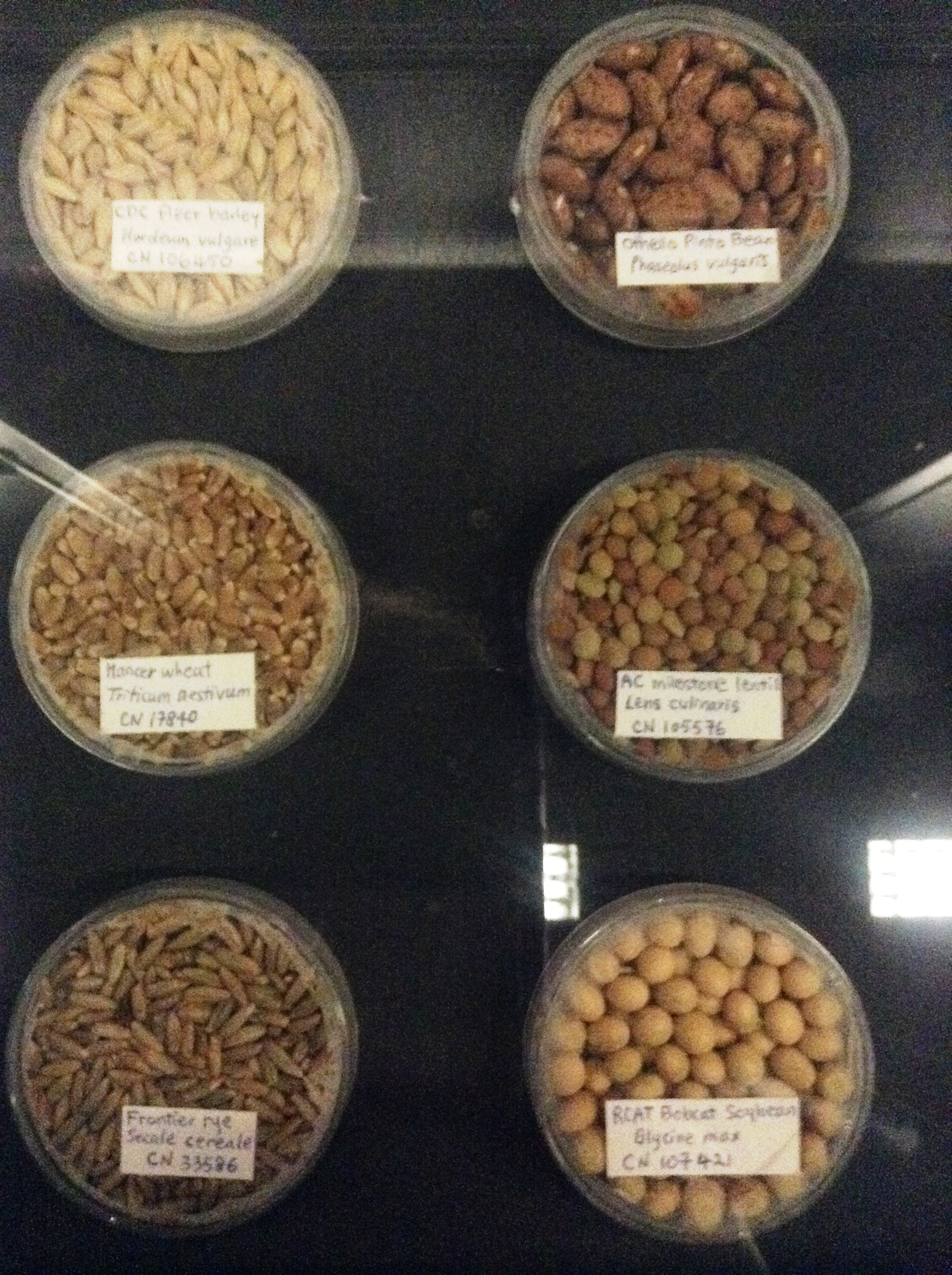 Beaty Biodiversity Museum LocationVancouver, British Columbia, CanadaCoordinates49° 15′ 48.96″ N, 123° 15′ 05.04″ W WebsiteBeaty Biodiversity Museum